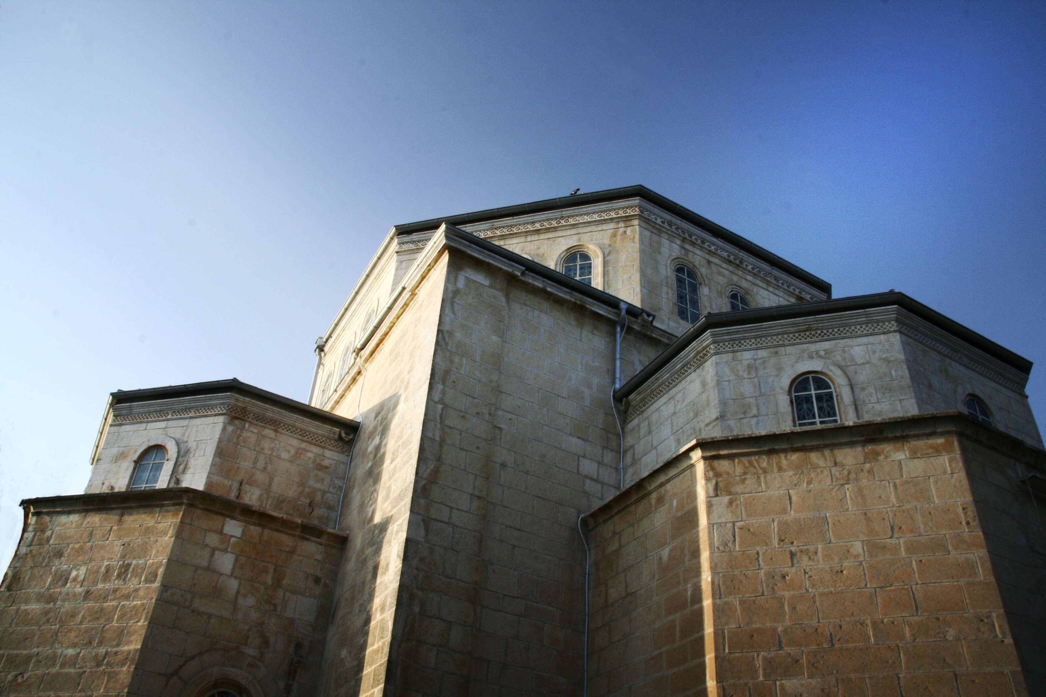 Ascension Cathedral (Mount of Olives)